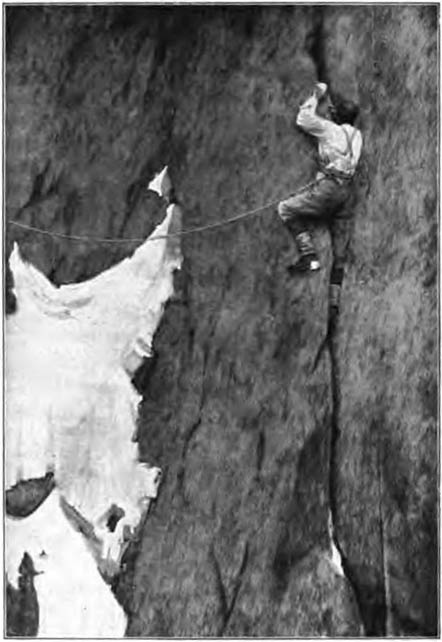 Image of Albert F. Mummery from My Climbs in the Alps and Caucasus (1895).